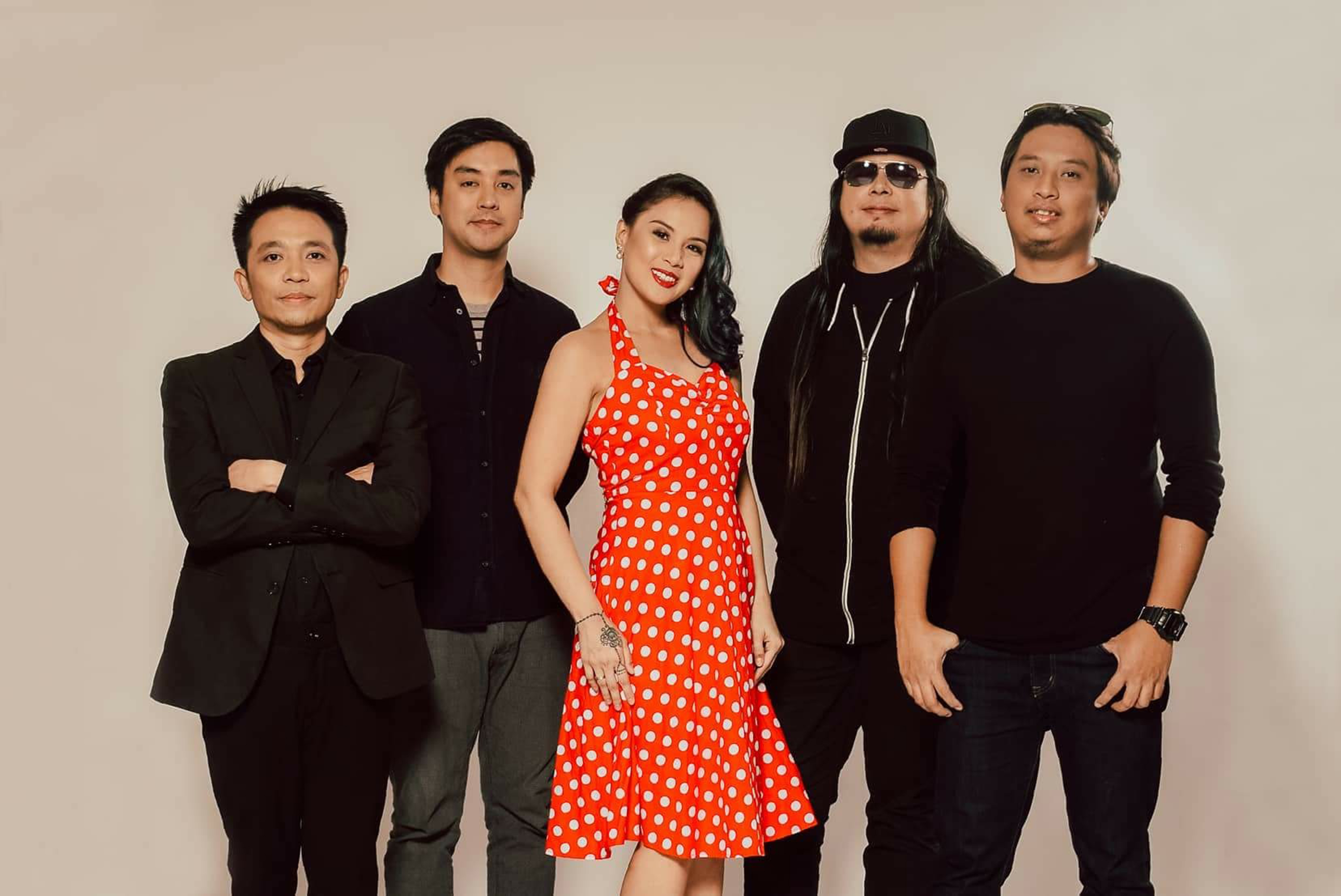 Mojofly - (from Left to Right) Mark Gelbolingo, Ali Alejandro, Lougee Basabas-Alejandro, Kiko Montecillo, Beejay Valera, Taken by Iah Potestades of Yellow Room Music PH ©MOJOFLY 2019